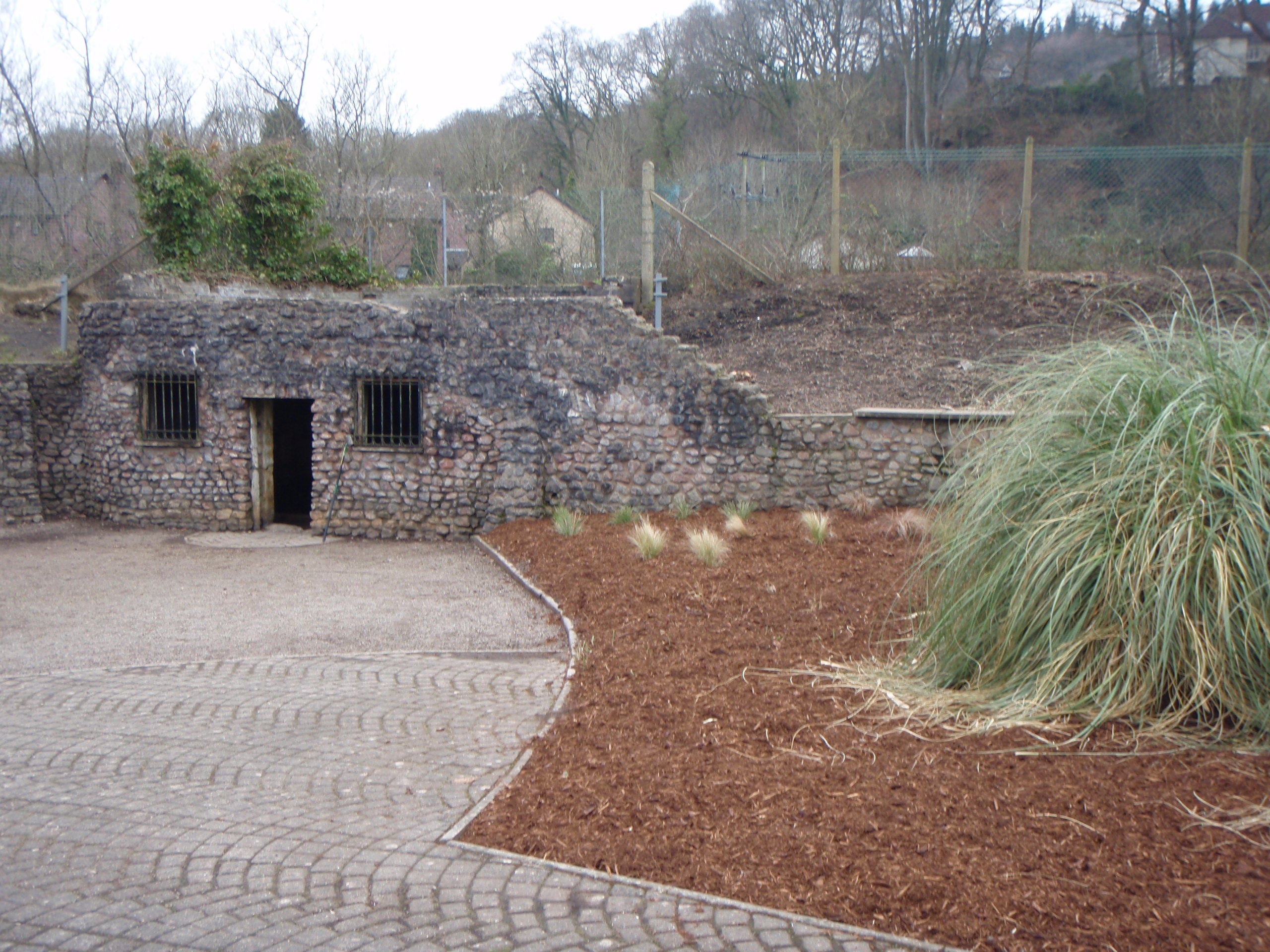 Taff's well thermal spring view of spring / well building. Feb 2008.